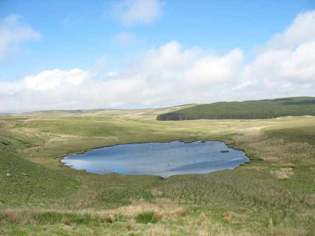 Llyn Cors-y-barcud